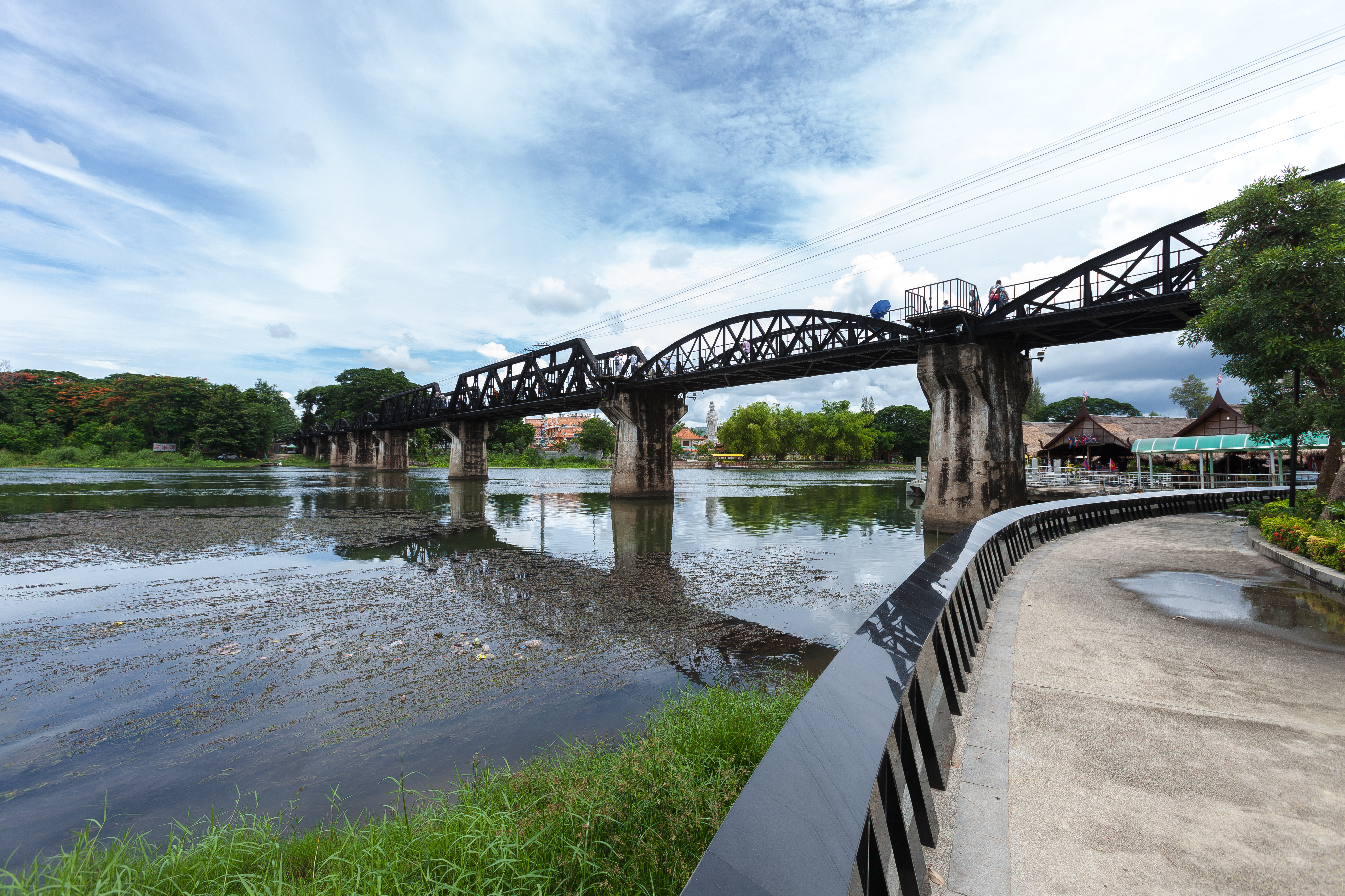 River Kwai bridge in Kanchanaburi Province, Thailand.